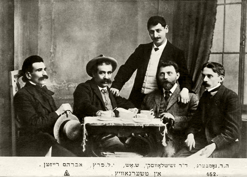 R-L: H.D. Nomberg, Haim Zhitlovsky, Shalom Ash, I.L. Peretz, A. Reisen (Czernowitz Conference, 1908)